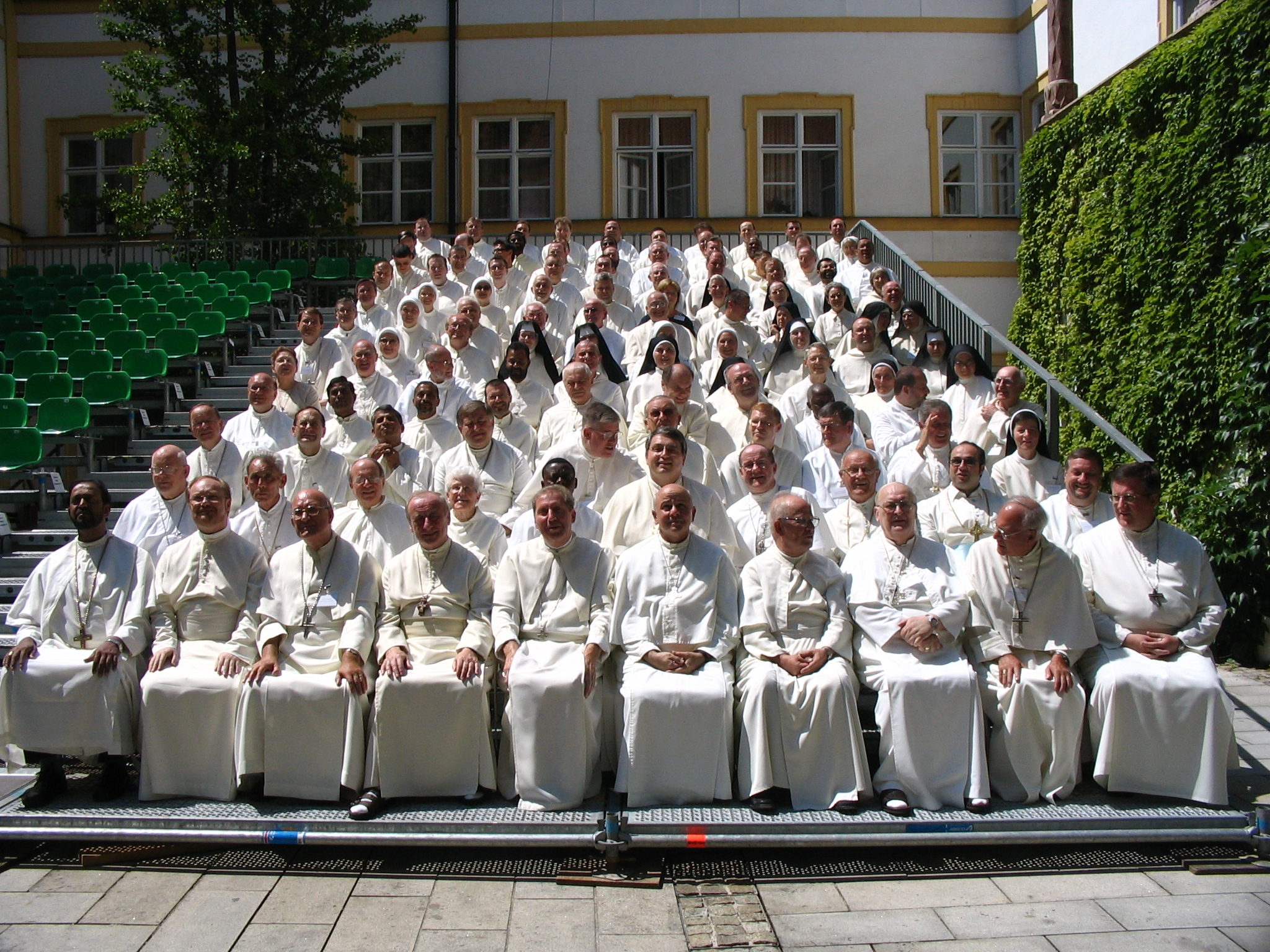 General Chapter Order of Prémontré - Generaal Kapittel 2006 Norbertijnen